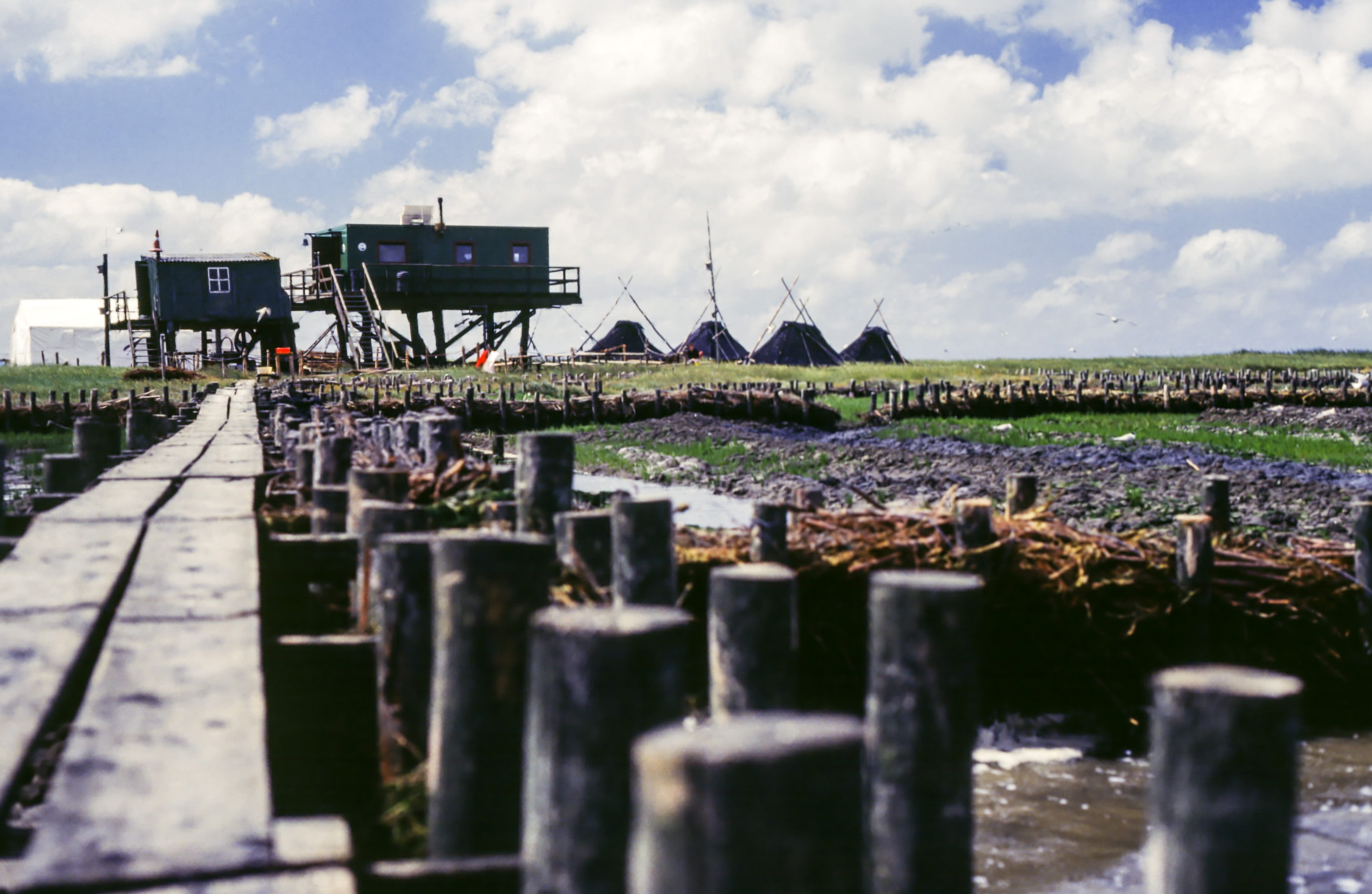 Hallig Norderoog 1989 - Jens Wand Hütte, container house and work camp